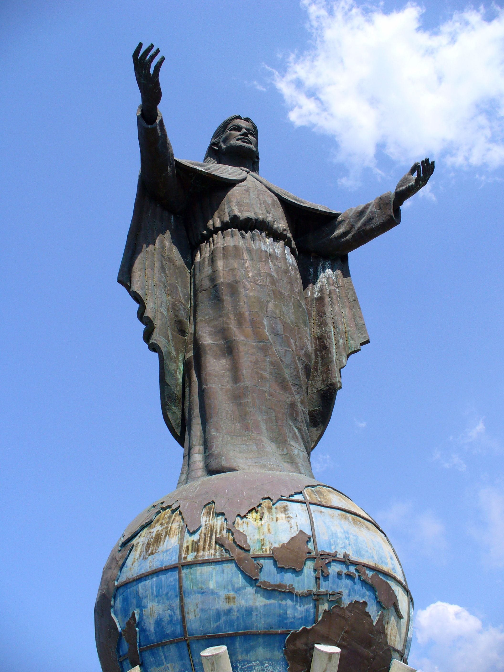 Christ statue on Dili, capital of Timor Leste.